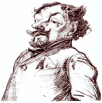 Caricature of French writer and journalist Émile Goudeau (1849-1906)